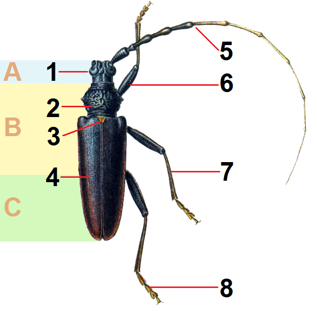 Description Die Käfer des Deutschen Reiches (FAUNA GERMANICA), IV. Band, Farbendrucktafel Date1912SourceK.G. Lutz' Verlag, StuttgartAuthorEdmund Reitter, K.G. LutzPermission (Reusing this file) Author died more than 70 years ago - public domain Other versions →This file has been extracted from another file: Reitter-1912 bugs3135.jpg. This work is in the public domain in its country of origin and other countries and areas where the copyright term is the author's life plus 70 years or less. You must also include a United States public domain tag to indicate why this work is in the public domain in the United States. Note that a few countries have copyright terms longer than 70 years: Mexico has 100 years, Jamaica has 95 years, Colombia has 80 years, and Guatemala and Samoa have 75 years. This image may not be in the public domain in these countries, which moreover do not implement the rule of the shorter term. Côte d'Ivoire has a general copyright term of 99 years and Honduras has 75 years, but they do implement the rule of the shorter term. Copyright may extend on works created by French who died for France in World War II (more information), Russians who served in the Eastern Front of World War II (known as the Great Patriotic War in Russia) and posthumously rehabilitated victims of Soviet repressions (more information). This file has been identified as being free of known restrictions under copyright law, including all related and neighboring rights. Die Käfer des Deutschen Reiches (FAUNA GERMANICA), IV. Band, Farbendrucktafel